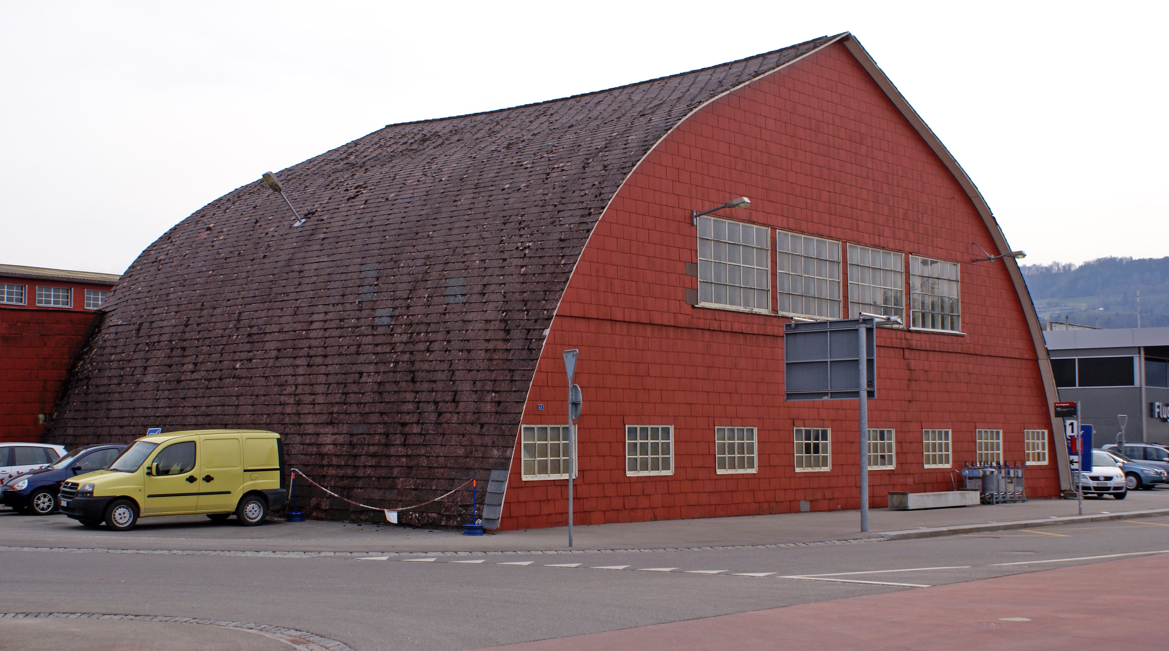 The Biderhangar at Berne Airport, Switzerland. Built by Swiss aviation pioneer Oscar Bider, the hangar is classified as a heritage site of national significance.